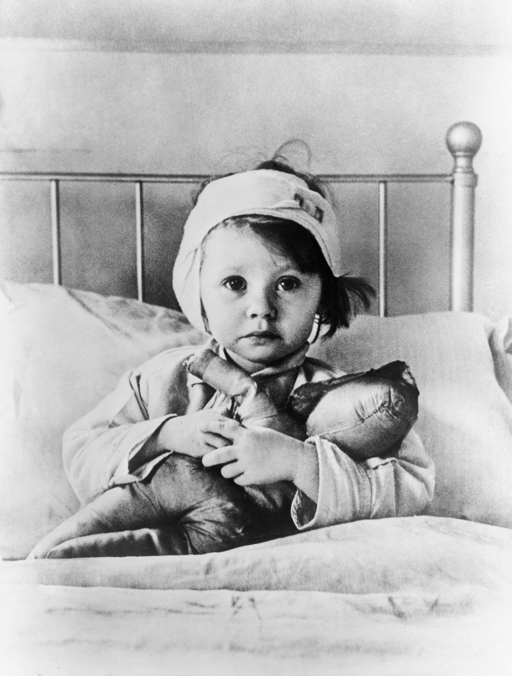 The London Blitz, 1940 1940s vintage exhibition print of Cecil Beaton photograph MH 26395. Eileen Dunne, aged three, sits in bed with her doll at Great Ormond Street Hospital for Sick Children, after being injured during an air raid on London in September 1940.